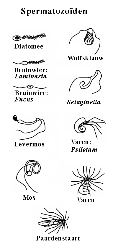 Motile plant and algae sperm cells. crop Now with nl txt by user Rasbak References Raven et al., Biology of Plants, 7th Edition, ISBN 0-7167-1007-2 Diatom sperm: page 314 Laminaria (kelp) sperm: page 320 Fucus sperm: page 321 Liverwort (Marchantia) sperm: page 355 Moss (Polytrichum) sperm: page 363 Lycopodium sperm: page 383 Selaginella sperm: page 387 Fern (Polypodium) sperm: page 397 Psilotum sperm: page 401 Equisetum sperm: page 405 (Created using Powerpoint)